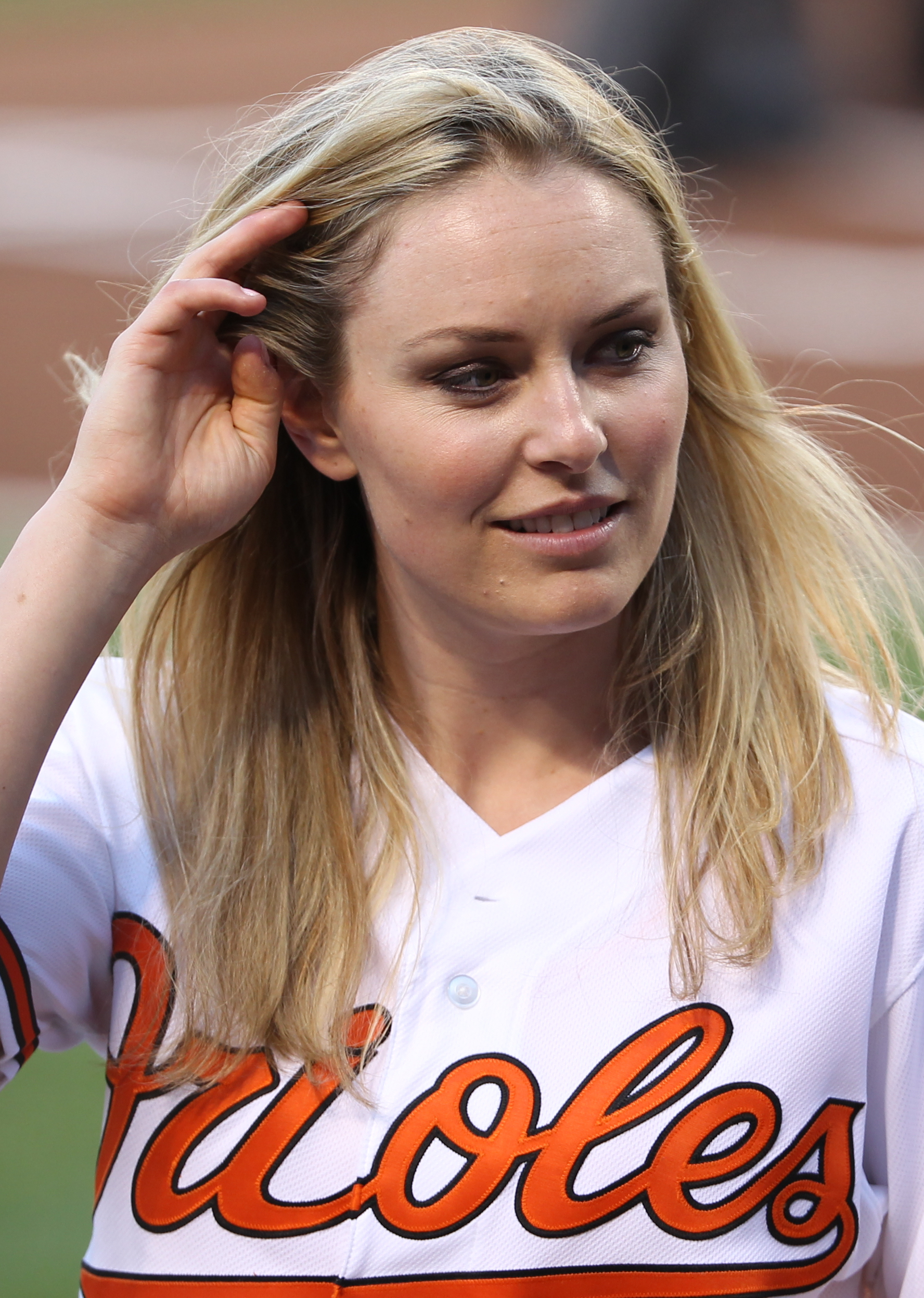 Boston Red Sox at Baltimore Orioles April 28, 2011